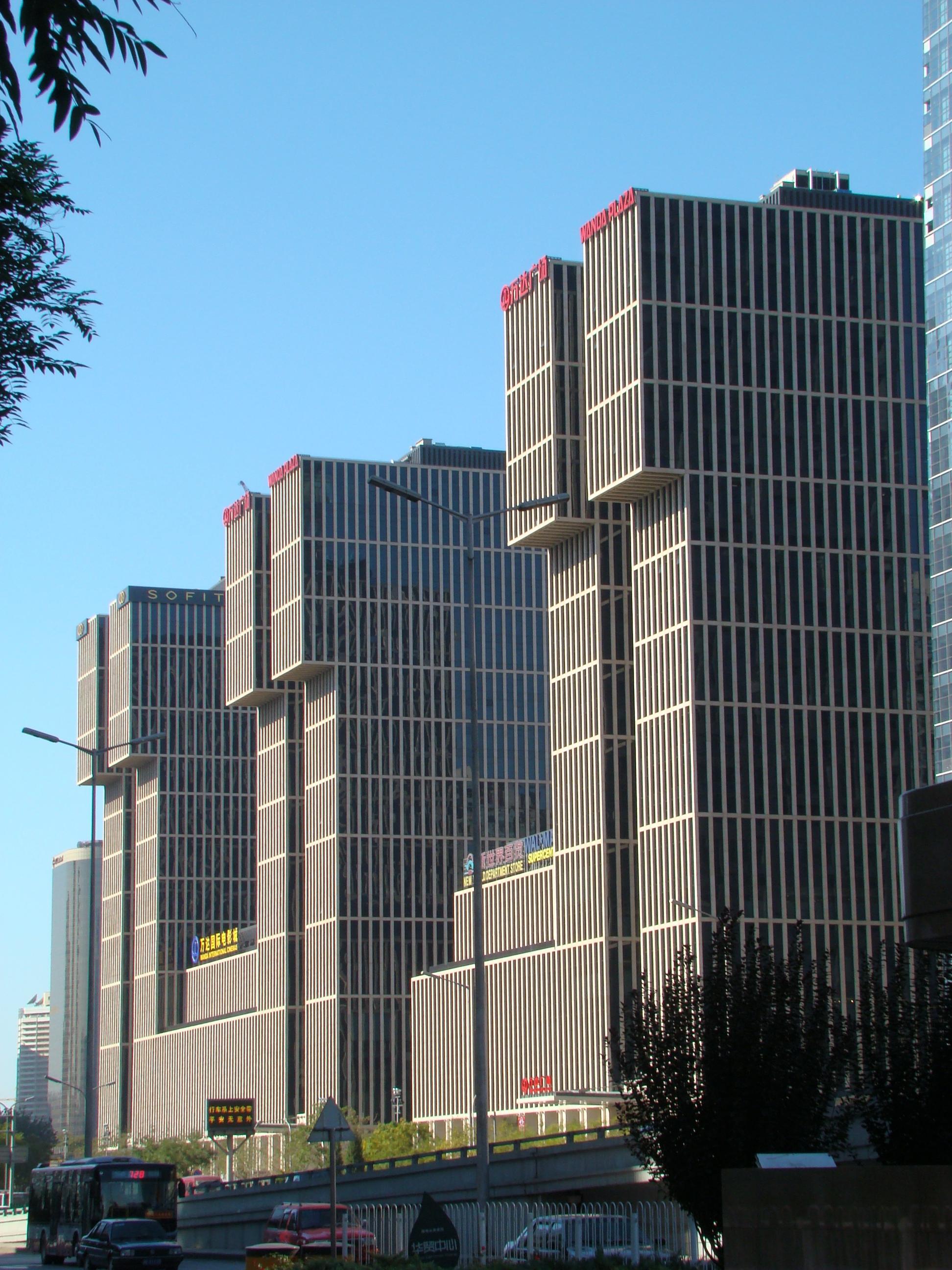 Beijing Wanda Plaza (Headquarters of Wanda Group and Wanda Cinemas) - Includes Wal-Mart, Wanda Cinemas, and Sofitel